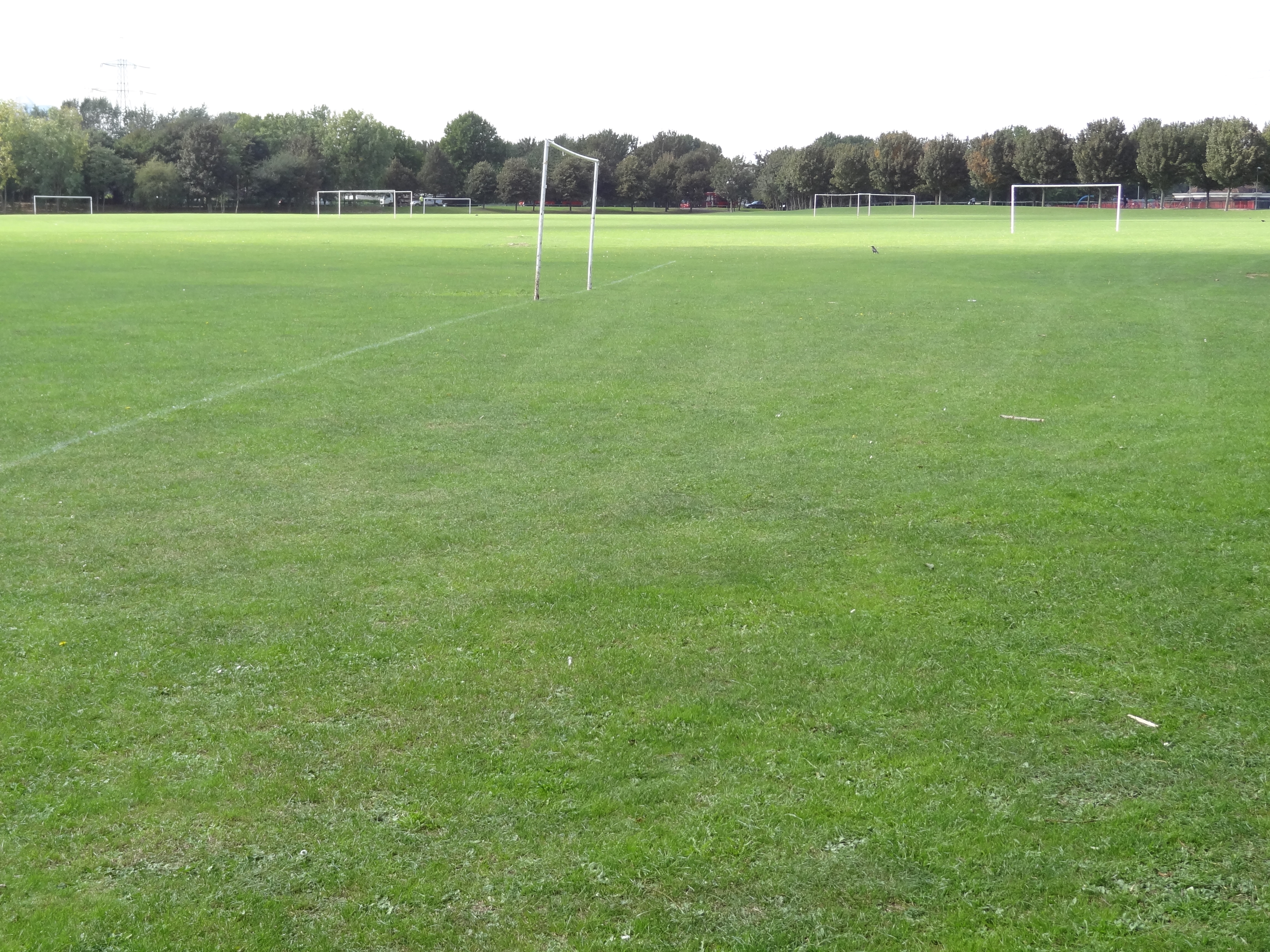 Football pitches in Beckton District Park, Newham, London